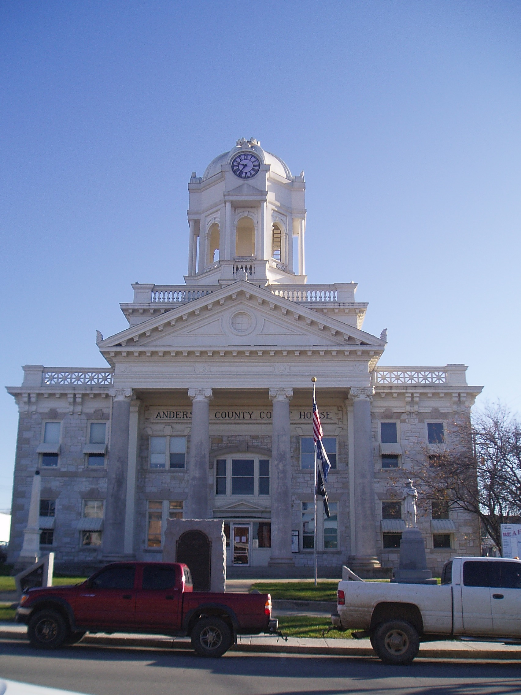 Image of the Anderson County, Kentucky Courthouse which is located in the county seat, Lawrenceburg, Kentucky.